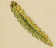 Stainton’s Natural History of the Tineina (1855–1873): Stigmella tiliae